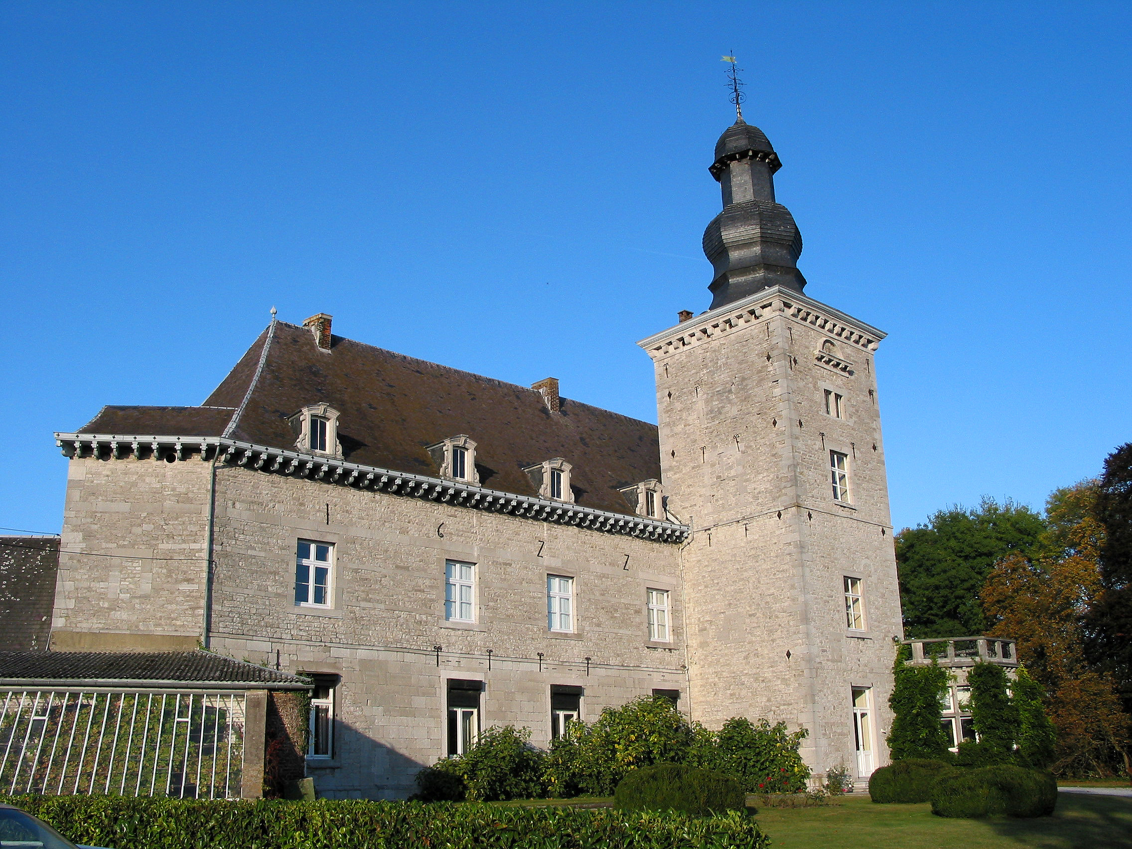 Fumal (Belgium), the castle. Walon: Foumâl (Bèldjike), li tchèstê.